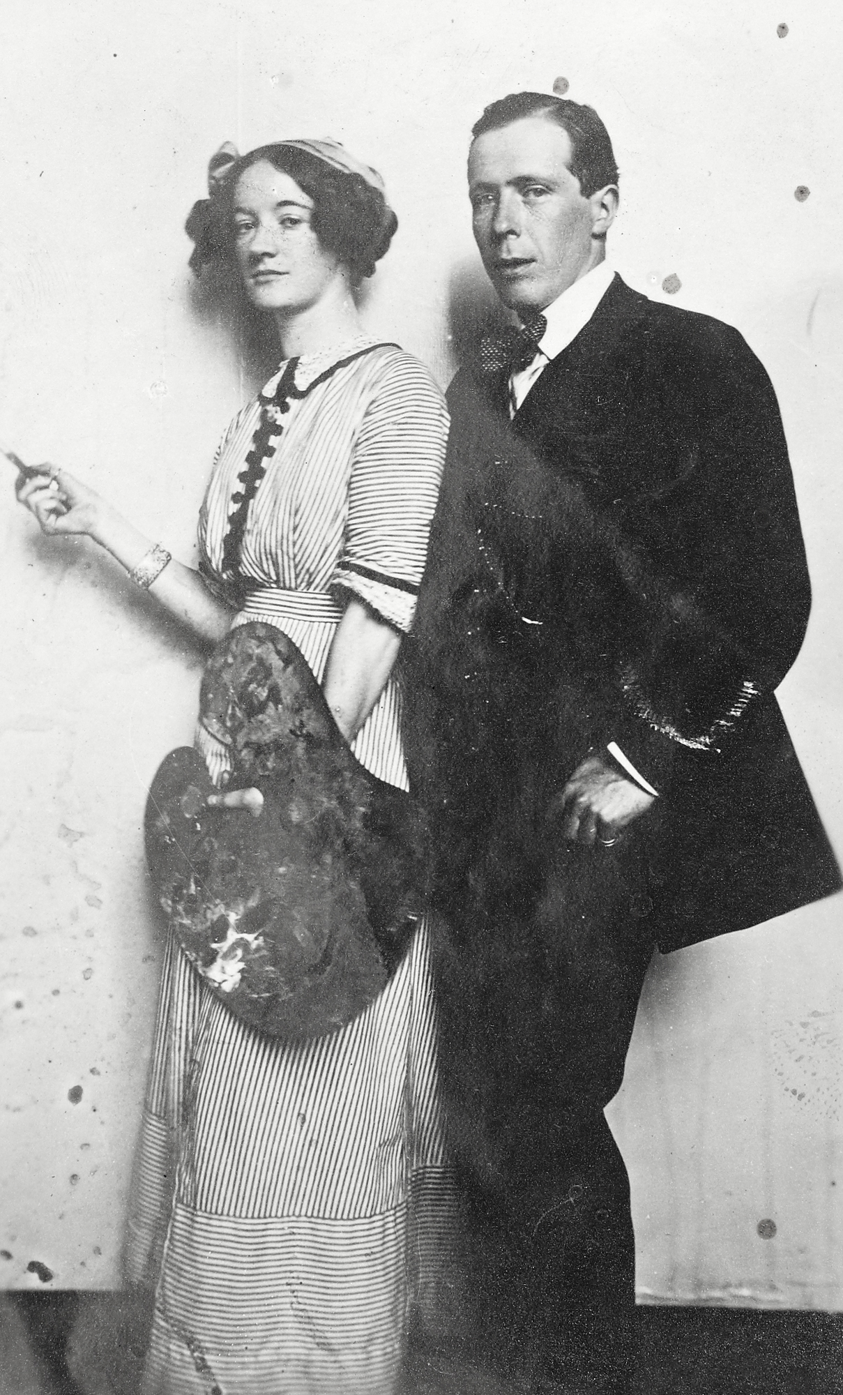 Two significant figures from the 1916 era, Grace Plunkett (nee Gifford) and Sir William Orpen the artist. A very posed photograph - but what can we find out about it apart from what has been added to the catalogue?: "Grace Gifford Plunkett, holding a brush and artist's palette, and William Orpen, three-quarter length portrait, printed on postcard. Grace Gifford studied under the Irish artist William Orpen at the Dublin Metropolitan School of Art between 1904 and 1907." Today's contributors link us primarily to the Wikipedia entries for Grace Gifford and William Orpen. Both artists from Dublin they are pictured perhaps around the time of William's 1907 portrait of his then student. Within a decade of that portrait, Irish and global events would take these two on different paths. Orpen became a prolific war artist and would capture the horrors of the Somme during 1916/1917. Grace became a caricature artist, and involved with Joseph Plunkett and the Rising during Easter 1916. Grace famously married Plunkett in Kilmainham Jail, just hours before his death... Photographers: Various Collection: Irish Political Figures Photographic Collection Date: c.1904-1910. NLI Ref: NPA POLF253 You can also view this image, and many thousands of others, on the NLI’s catalogue at